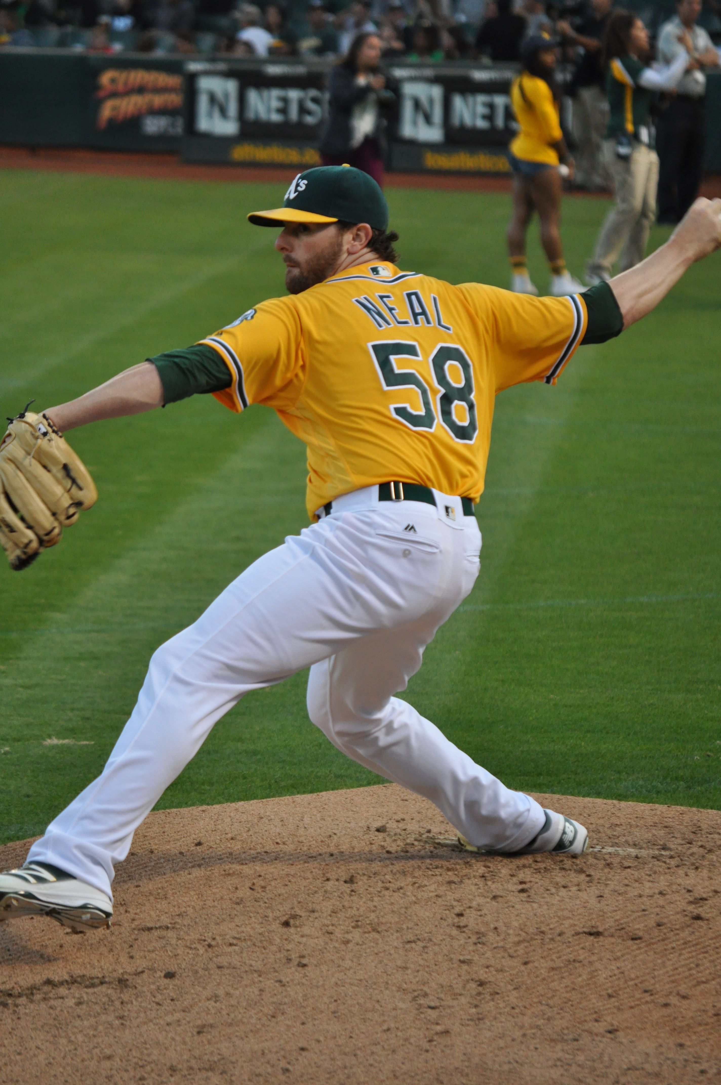 Neal before his 9-6-16 start against the Angels